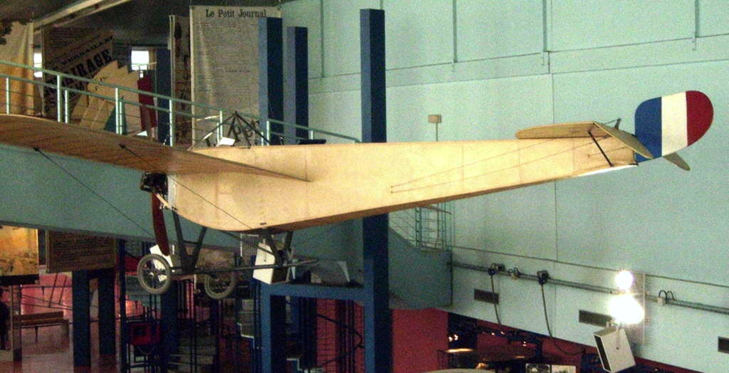 Nieuport 2N/IIN preserved at the Musee de l'Air et de l'Espace, Paris Le Bourget